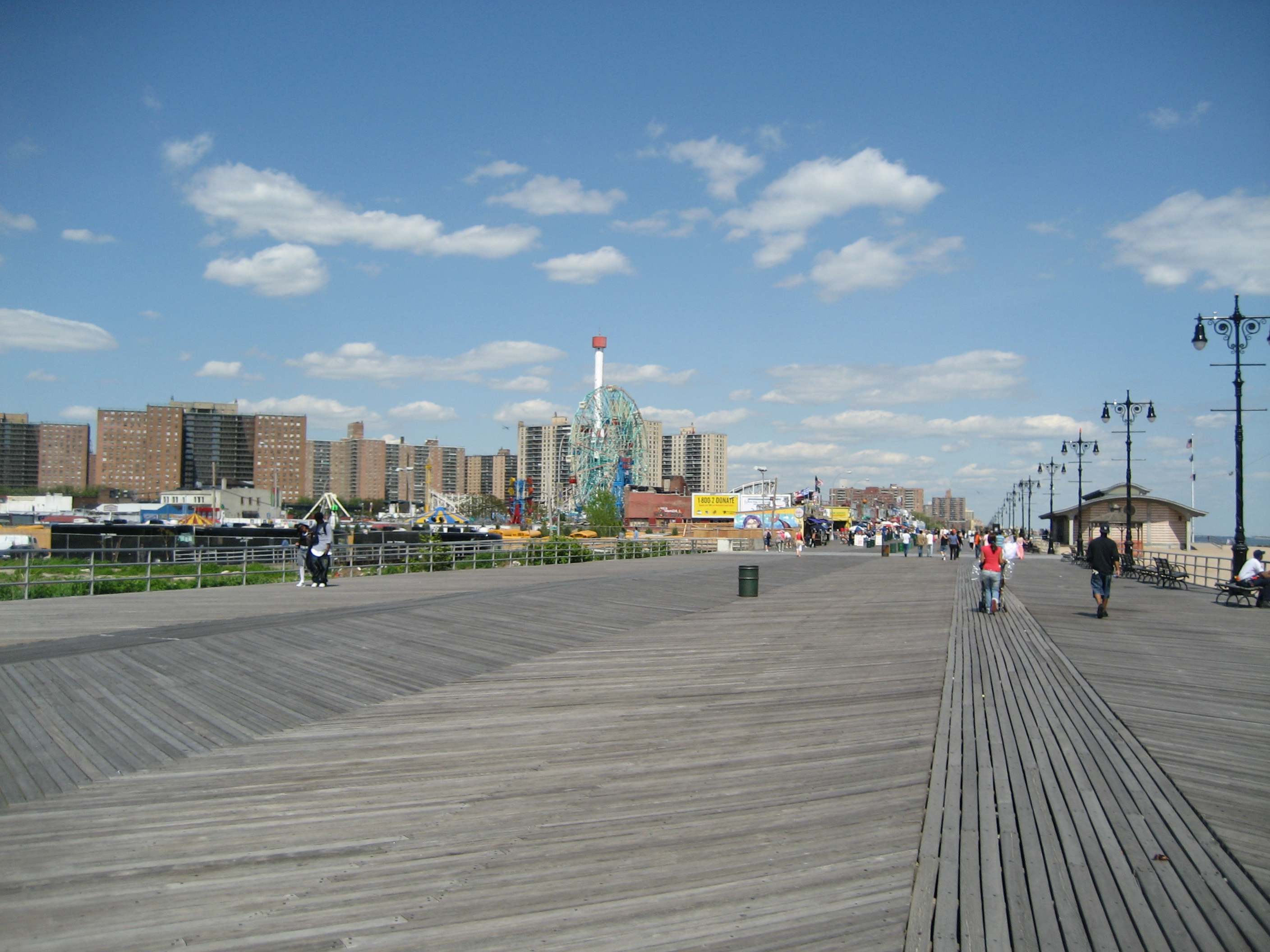 View down Riegelmann Boardwalk, Coney Island, New York.